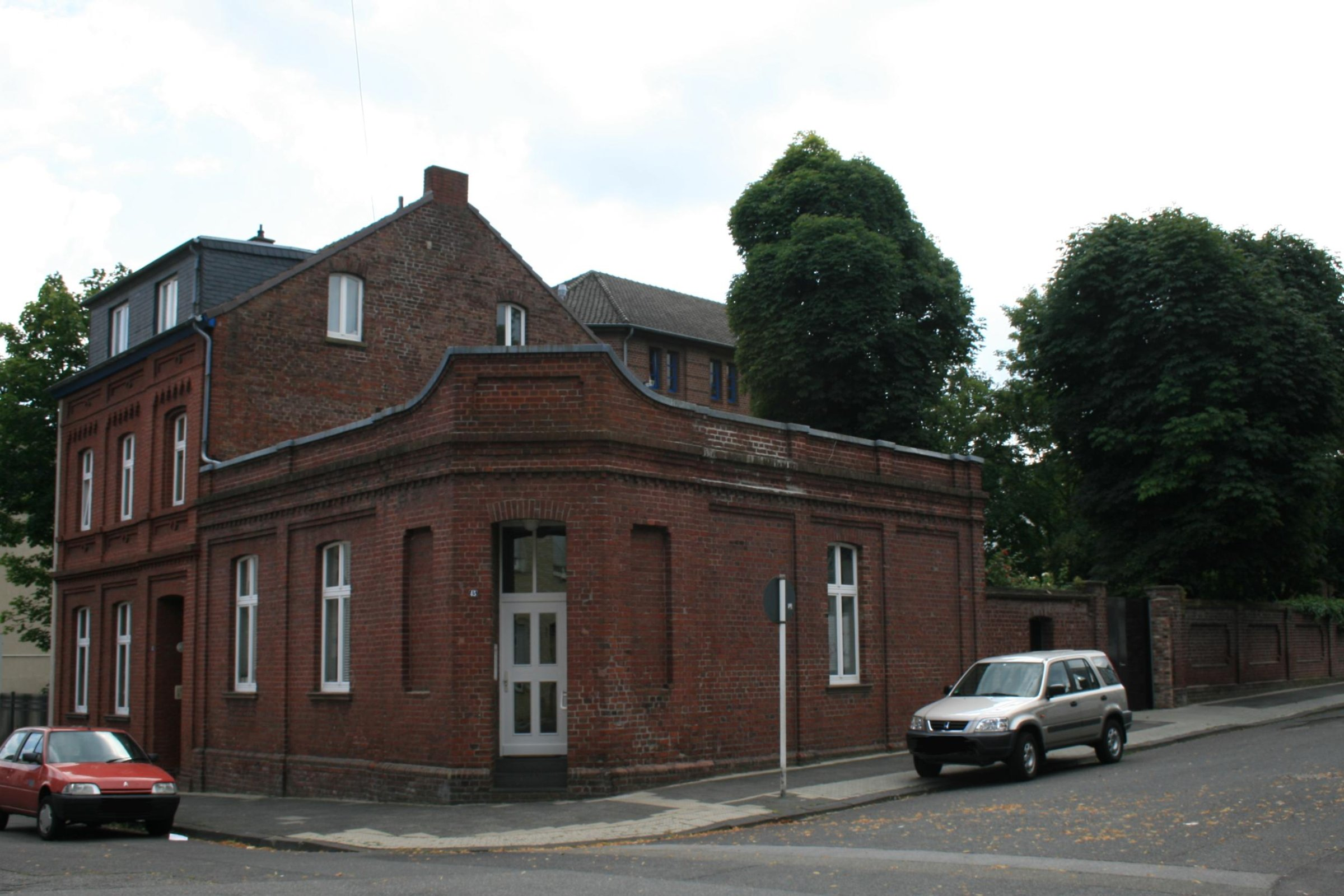 Cultural heritage monument No. K 019 in Mönchengladbach